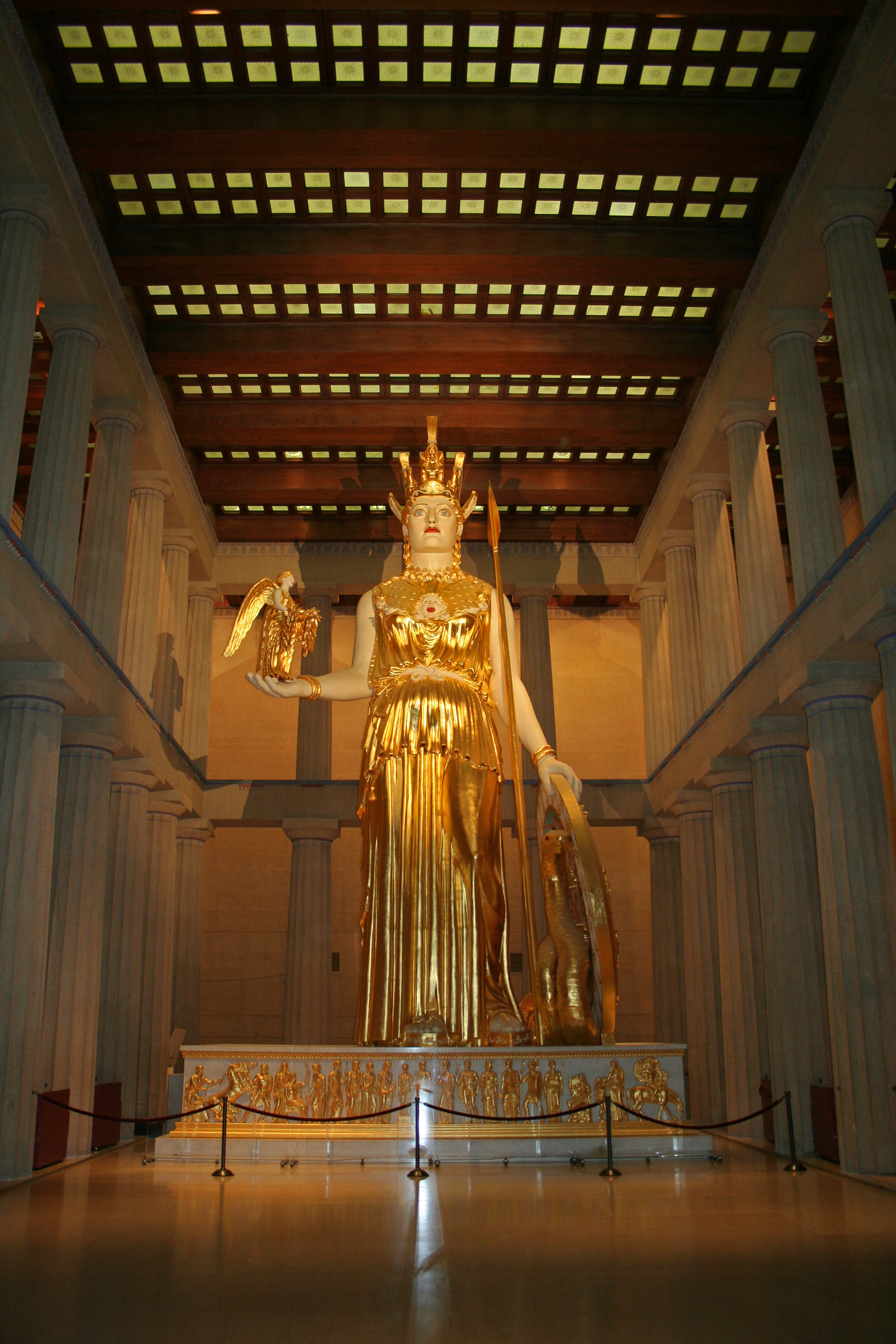 The Parthenon, Centennial Park Nashville